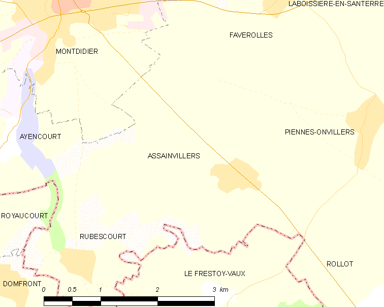 Map of French municipality Assainvillers